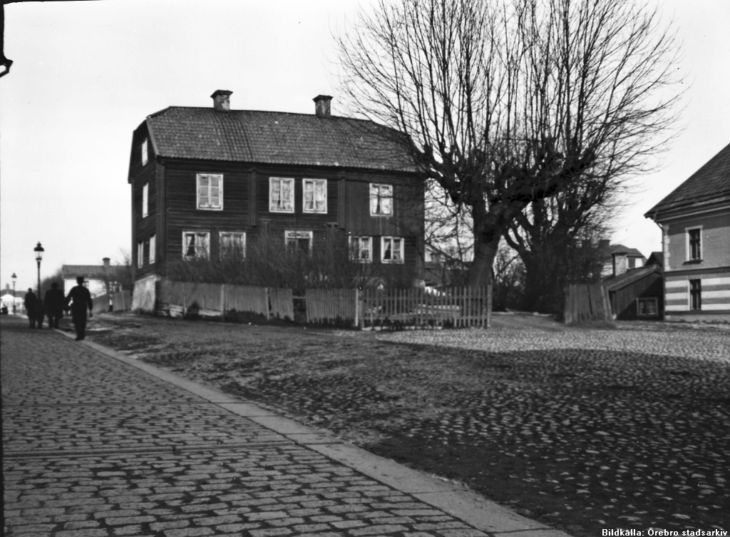 The house "Blåsut" or "Kolumbus hus", Örebro, Sweden